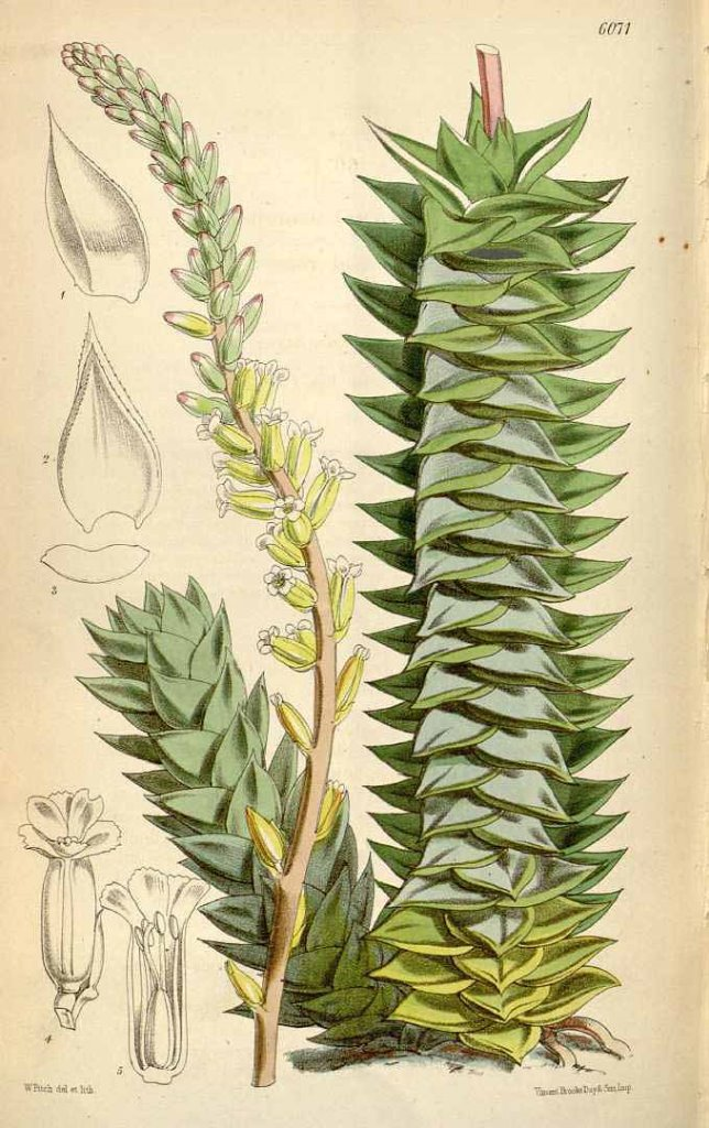 Astroloba congesta - deltoidea variant - monograph 1873